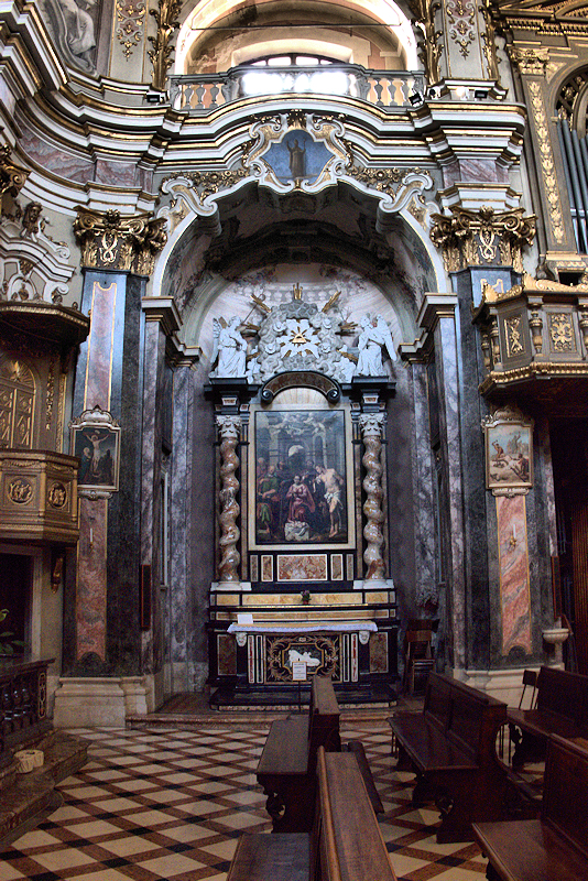 Third chapel on the right of "Santissima Trinità" church in Crema, Italy